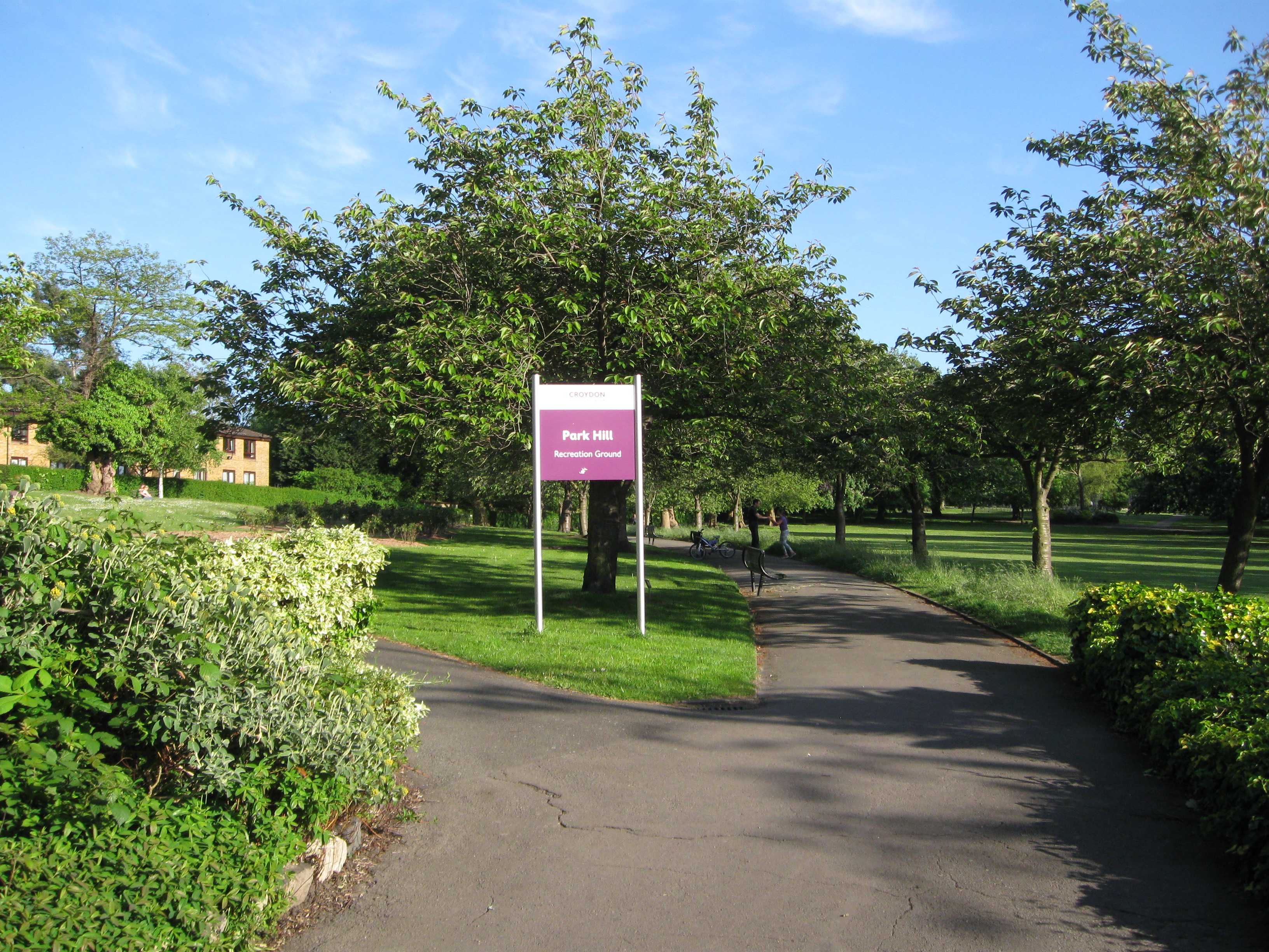 Park Hill Entrance 2015